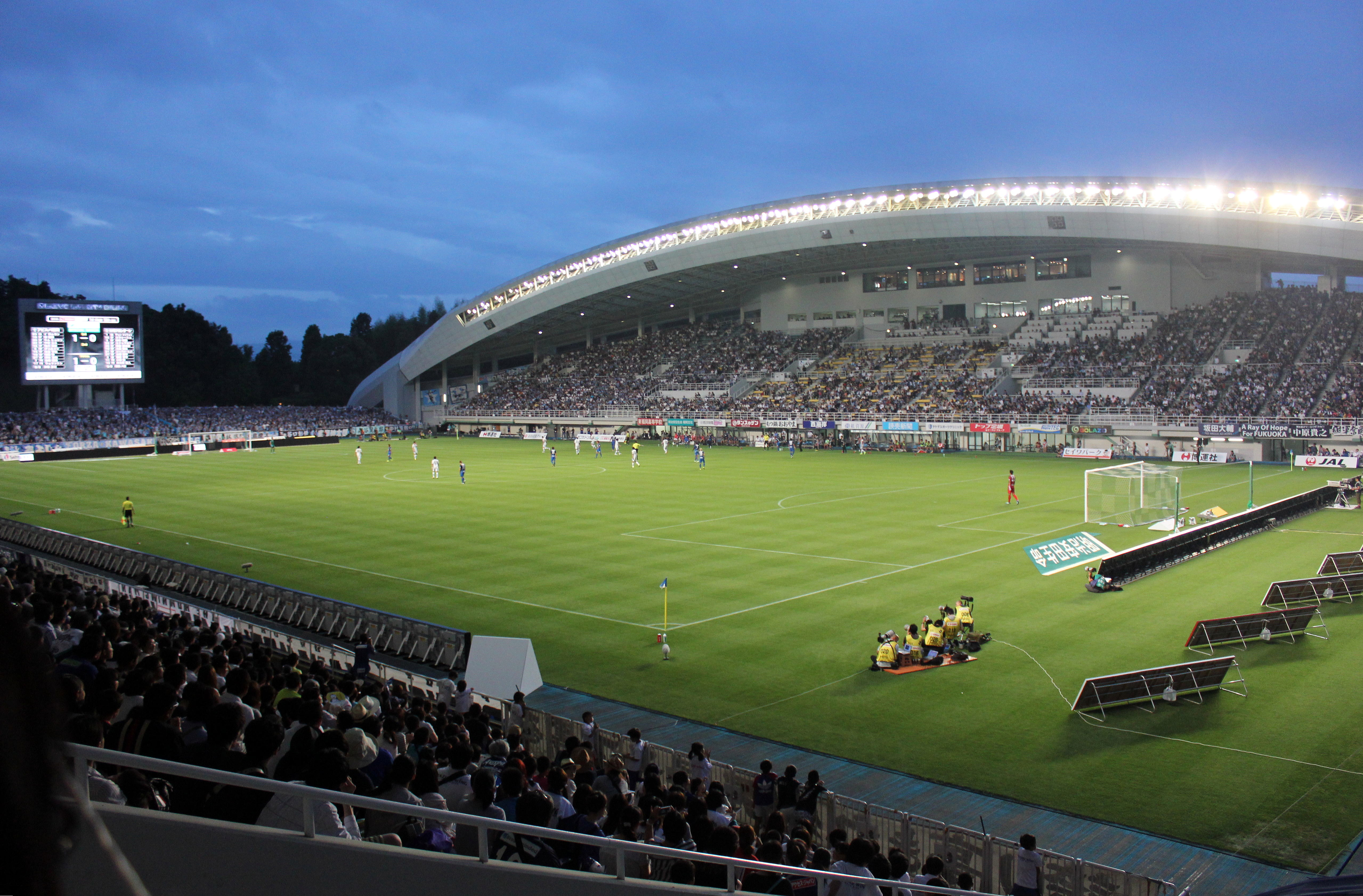 Hakatanomori-Kyugijo(Level-5 Stadium)